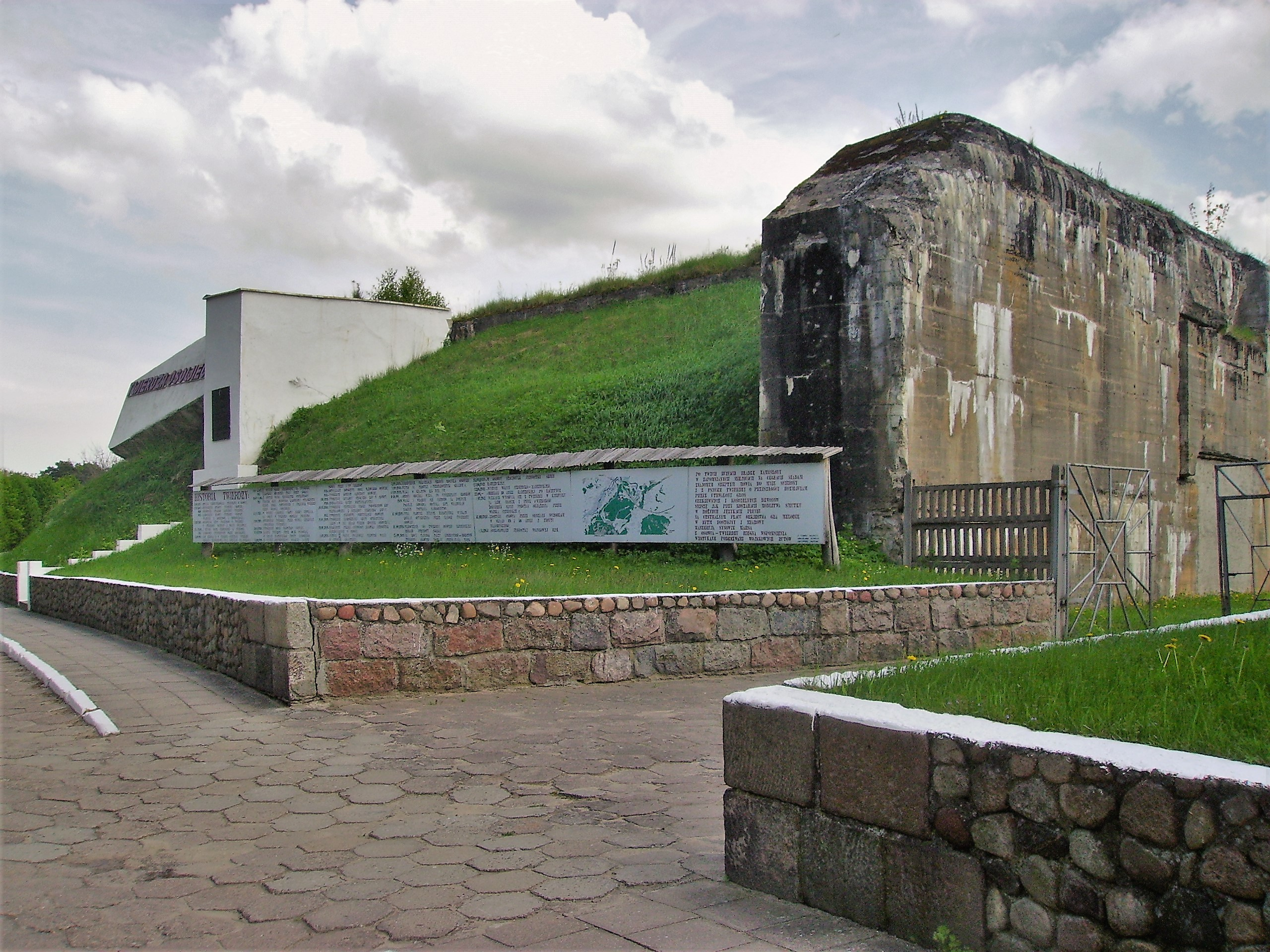 Osowiec Fortress.Fort I - monument